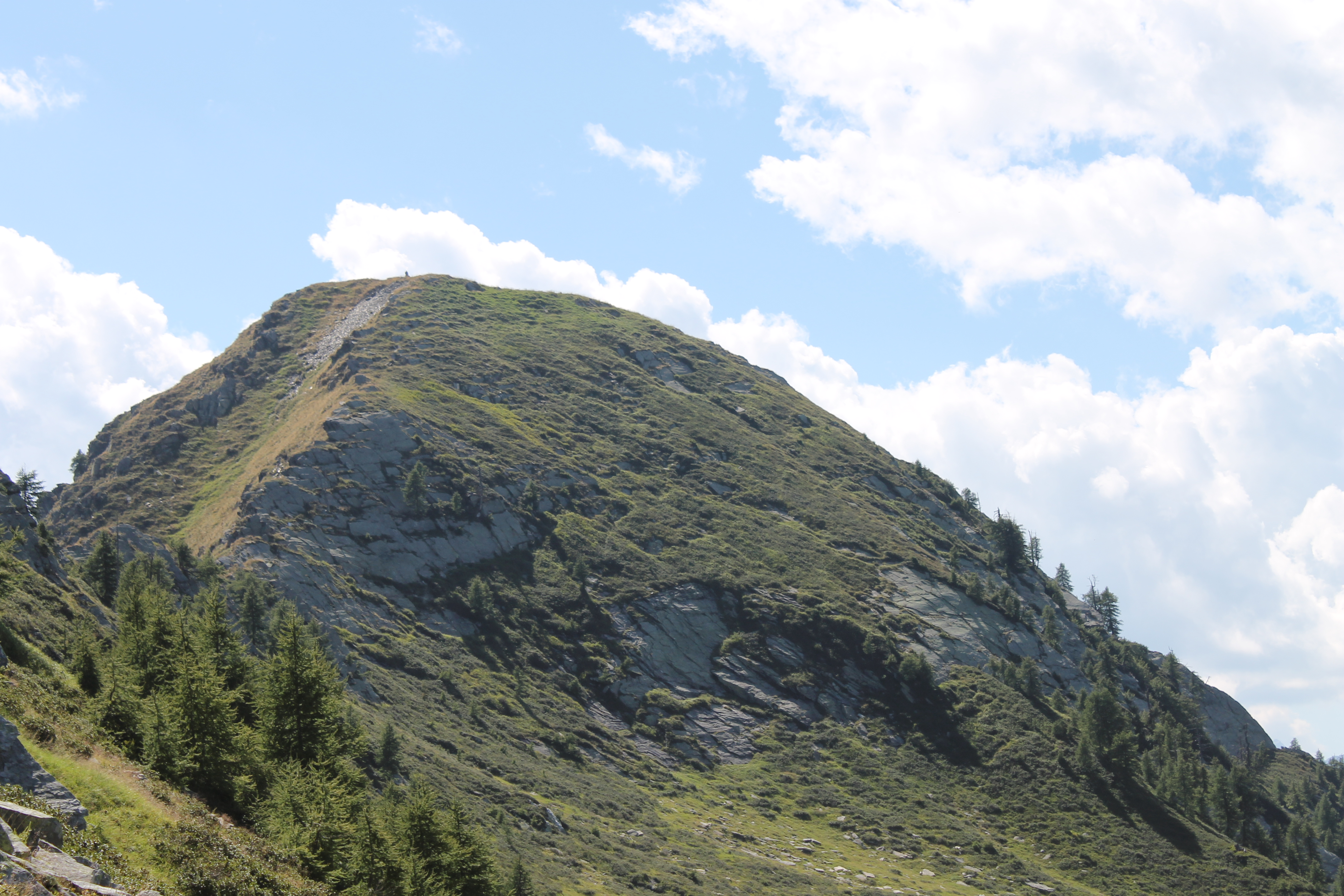 Mountain in Kanton Ticino Switzerland